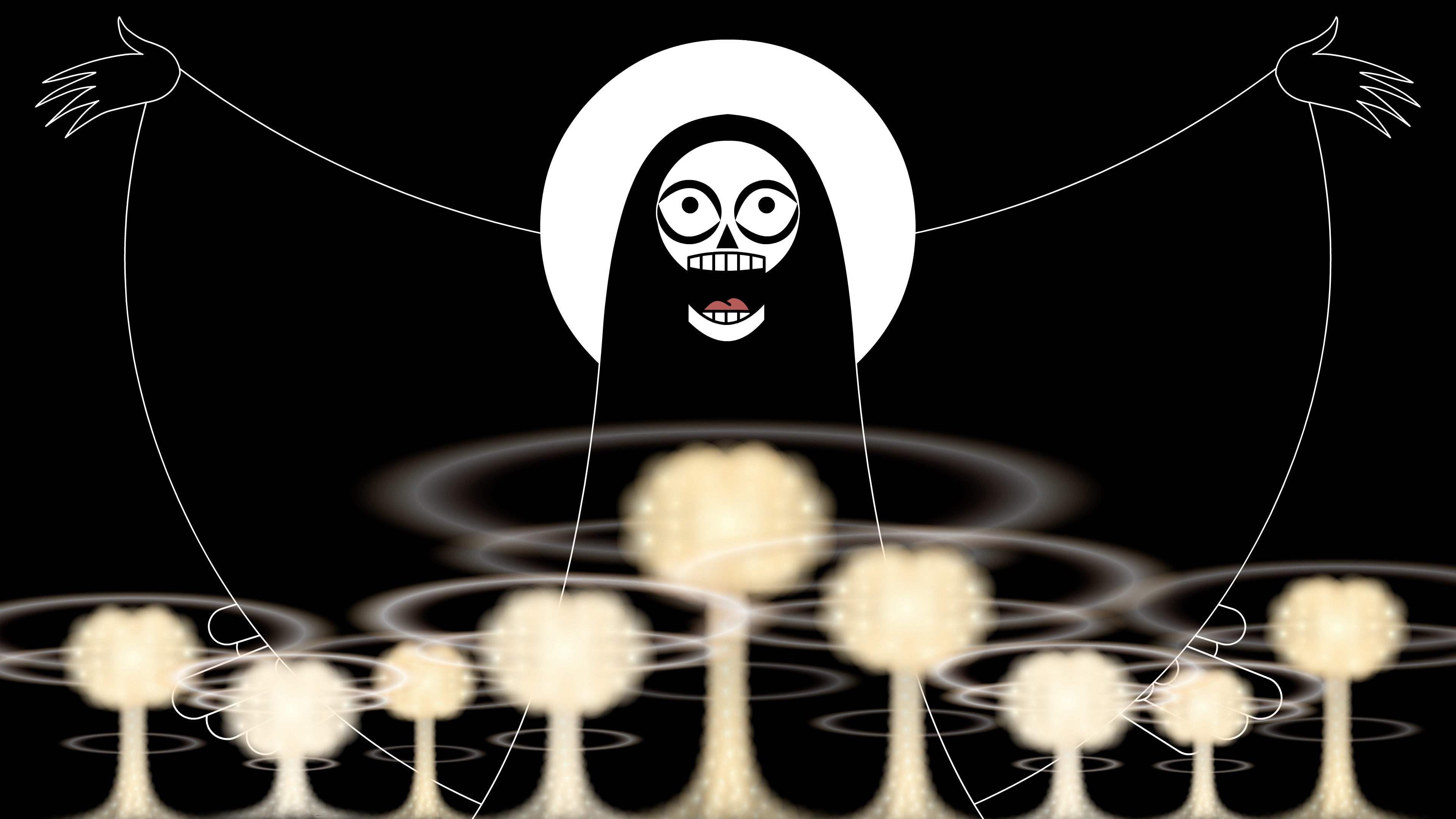 Still from the 2018 animated feature film Seder-Masochism by Nina Paley.